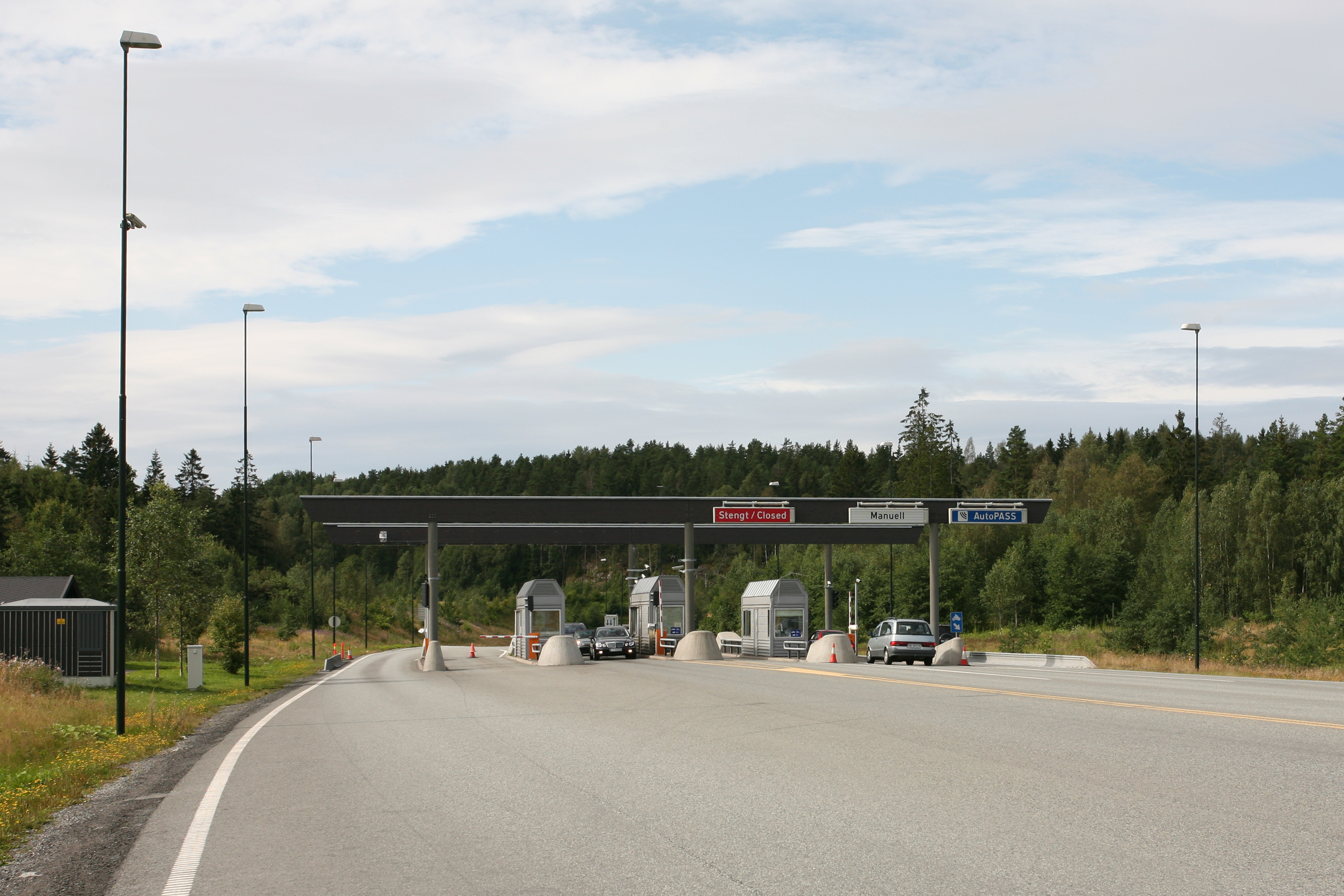 Picture of Oslofjord Tunnel, East entrance with Toll Station